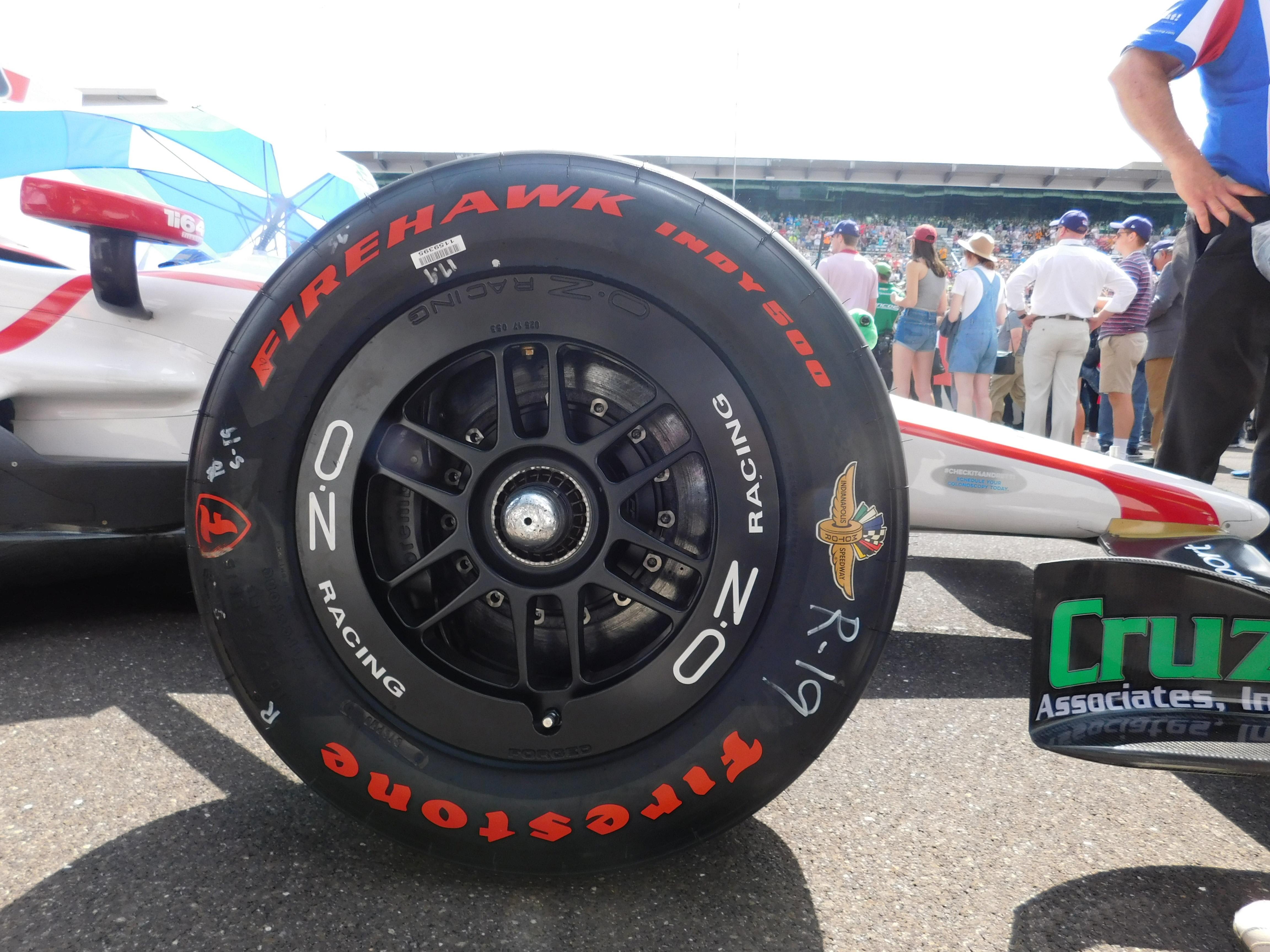 race wheel